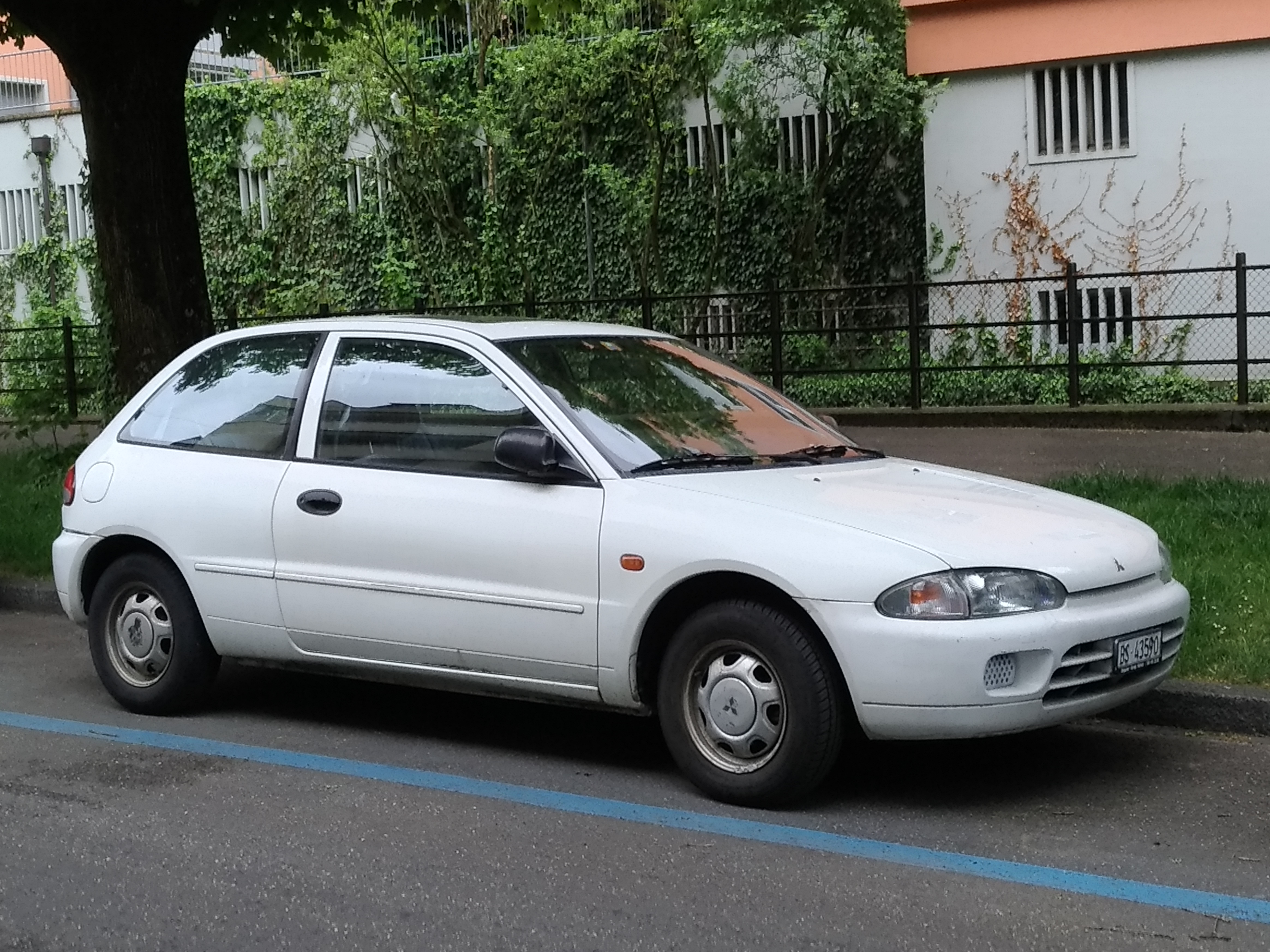 Mitsubishi Colt at Basel